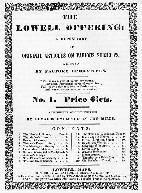 Front page of the Lowell Offering, Number 1 (1840)